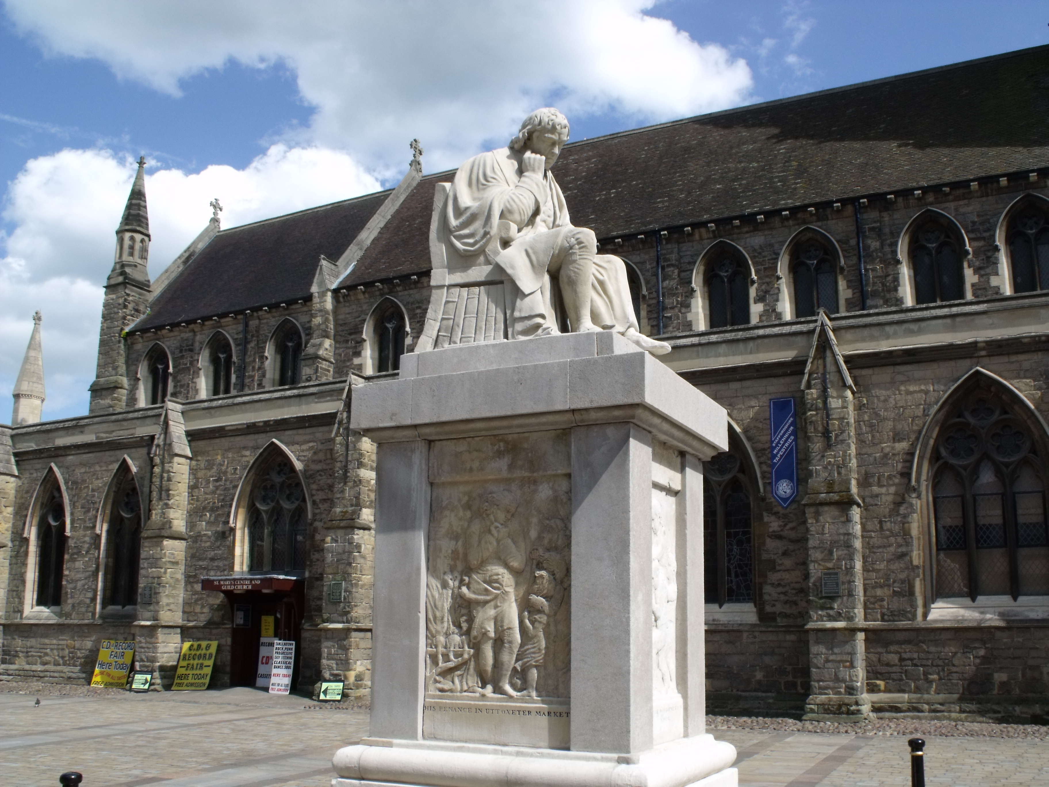 Statue of Dr Samuel Johnson in Lichfield Market Square, presented to the people of Lichfield in August 1838 by James Thomas Law, Chancellor of the Diocese. Dr Johnson was famous for writing the first English Dictionary. Samuel Johnson September 2009 is the 300th anniversary of Dr Johnson's birth. The statue is Grade II* listed. Statue of Dr Samuel Johnson. 1938. By Richard Cockle Lucas. Ashlar. Seated statue on plinth. Plinth has torus moulding to base; 3 sides with reliefs illustrating scenes from Johnson's life, influenced by Donatello's Schiacciato Relief (Pevsner p194); rear panel has inscription commemorating the gift of the statue by Dr James Thomas Law, Chancellor of the Diocese, with later plaque commemorating the 200th anniversary of Johnson's death. Seated figure of Johnson in academic robes, deep in thought, on a Greek Revival chair with books beneath. Dr Johnson, 1709-84, writer and critic, edited the dictionary for which he is chiefly remembered, one of the 2 great landmarks in the history of English dictionaries. (Buildings of England: Pevsner N: Staffordshire: London: 1974-: P.194; Drabble M: The Oxford Companion to English Literature: Oxford: 1985-: P.274, 513-5). Dr Johnson Statue, Lichfield - note: I think the listing text got the date of when it was wrong by about 100 years. They say 1938, it is was from 1838.